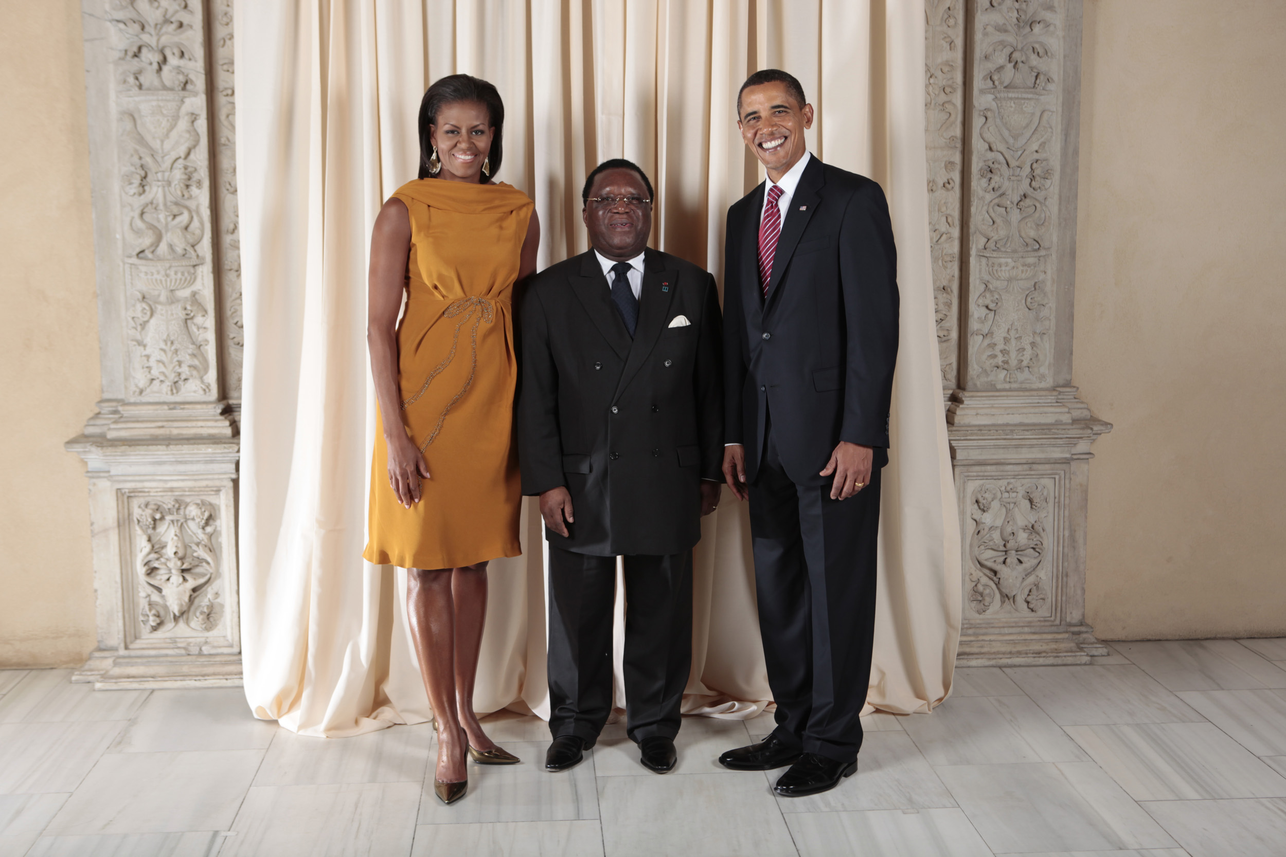 President Barack Obama and First Lady Michelle Obama pose for a photo during a reception at the Metropolitan Museum in New York with Youssouf Bakayoko, Minister of Foreign Affairs of the Republic of Côte d'Ivoire.